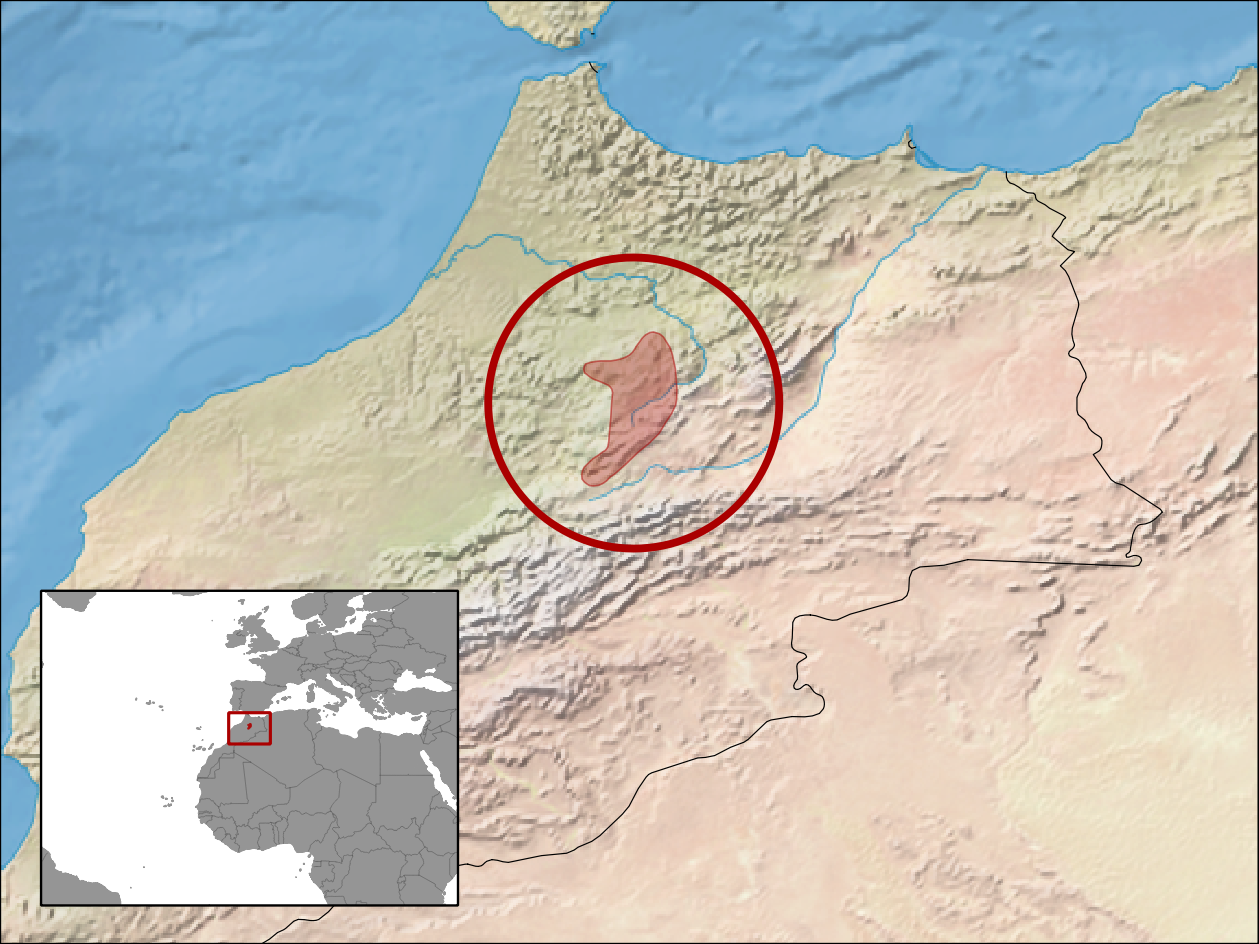 geographic distribution of Chalcides lanzai